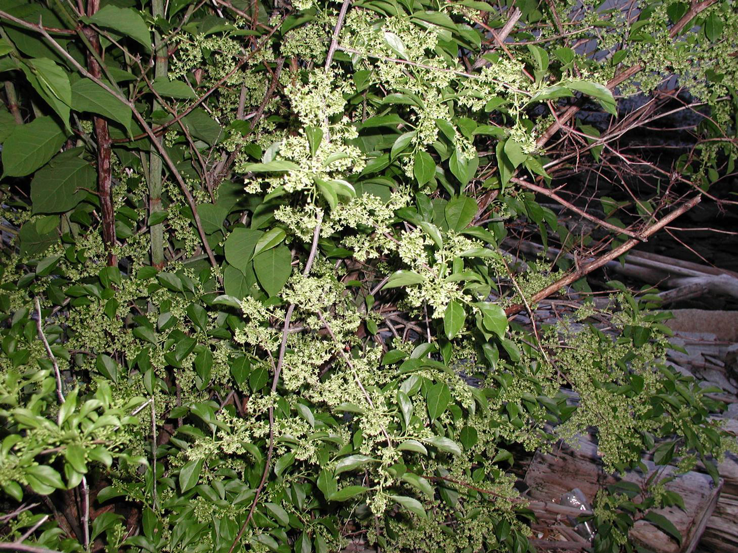 Celastrus orbiculatus Thunb. - oriental bittersweet - Flowers - USA